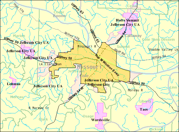 U.S. Census 2000 reference map for Jefferson City